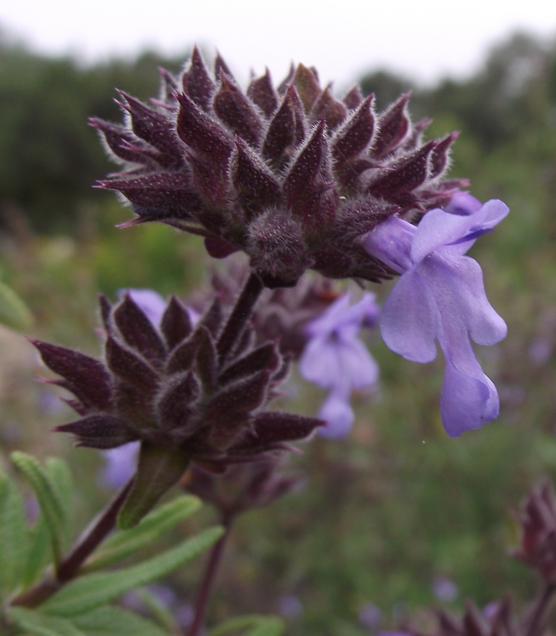 Salvia brandegeei at Santa Barbara Botanic Garden, Santa Barbara, California, USA. Identified by sign.